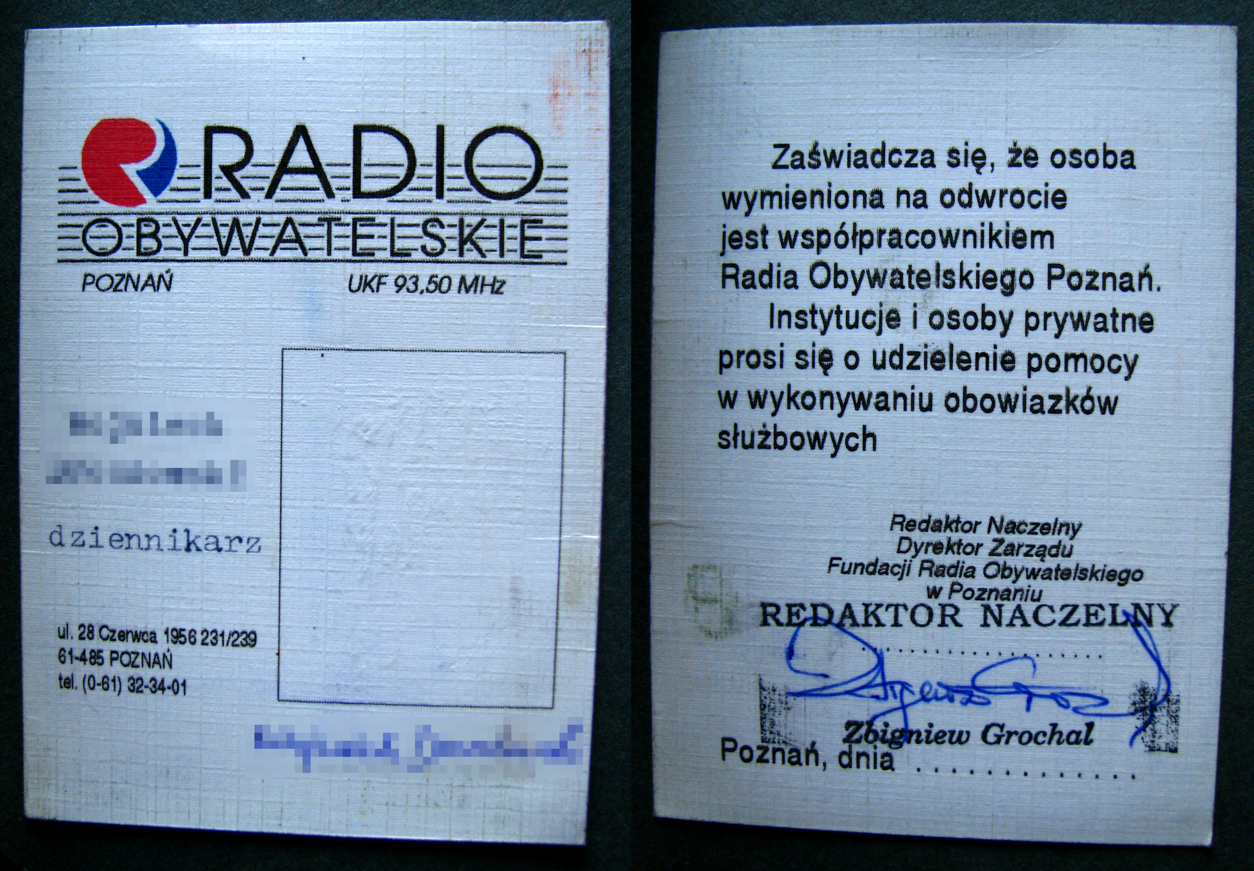 Press identification card Radio Obywatelskie Poznań.